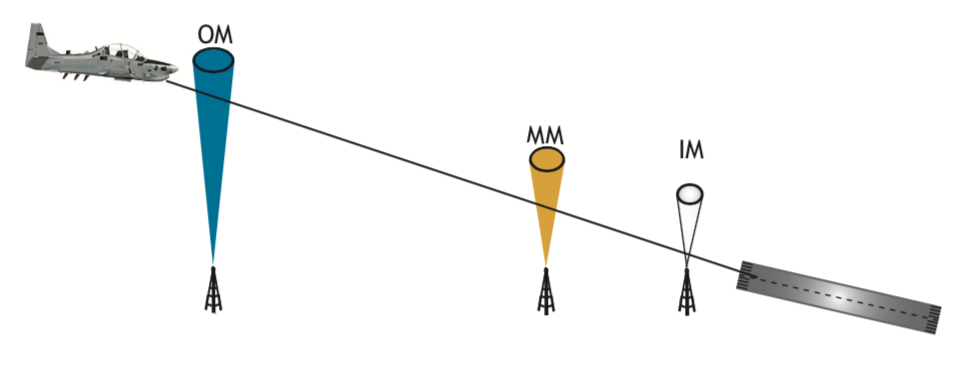 Marcadores OM MM IM